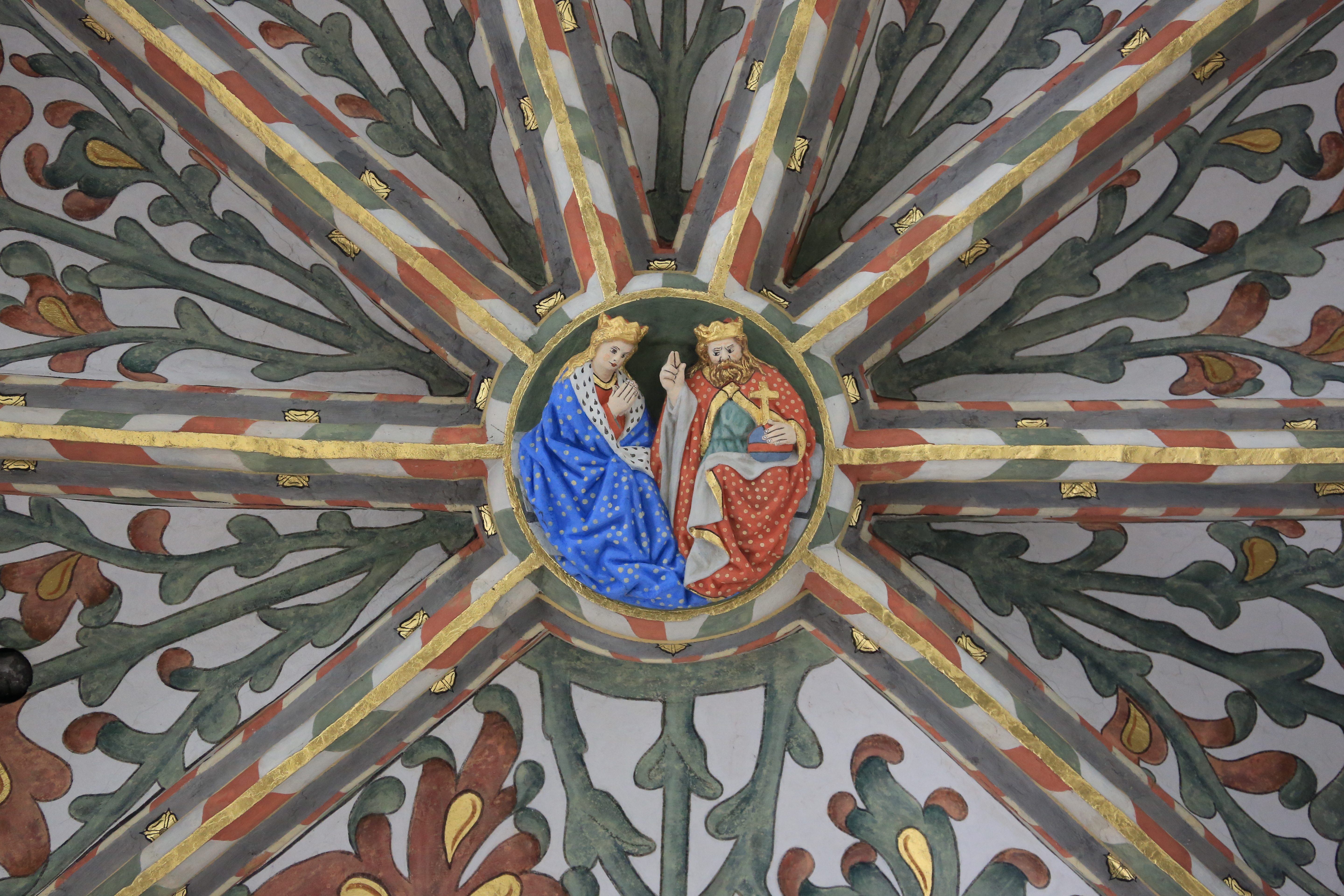 From the ceiling of the great church in Breda - Grote of Onze-Lieve-Vrouwekerk